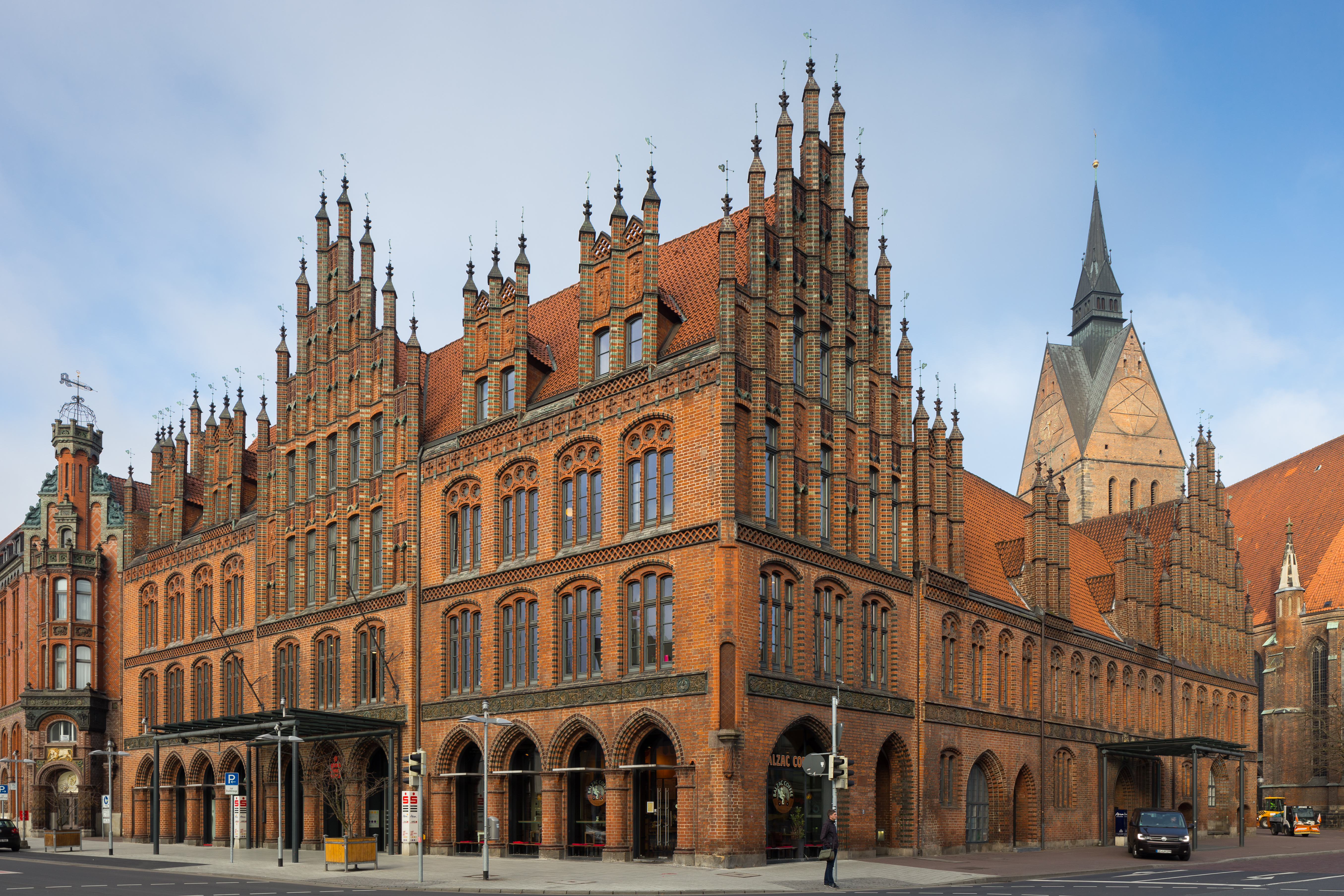 Hannover's old townhall located at Karmarschstrasse and Schmiedestrasse in Mitte district of Hannover, Germany.